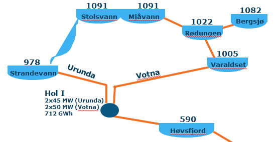 The Hol 1 power station utilizes water from two watercourses, Urunda, where Strandavatnet, is the intake reservoir, and Votna where Varaldset is the intake reservoir. Stolsvatnet is the biggest and highest reservoir in the Votna watercourse. Info: E-CO